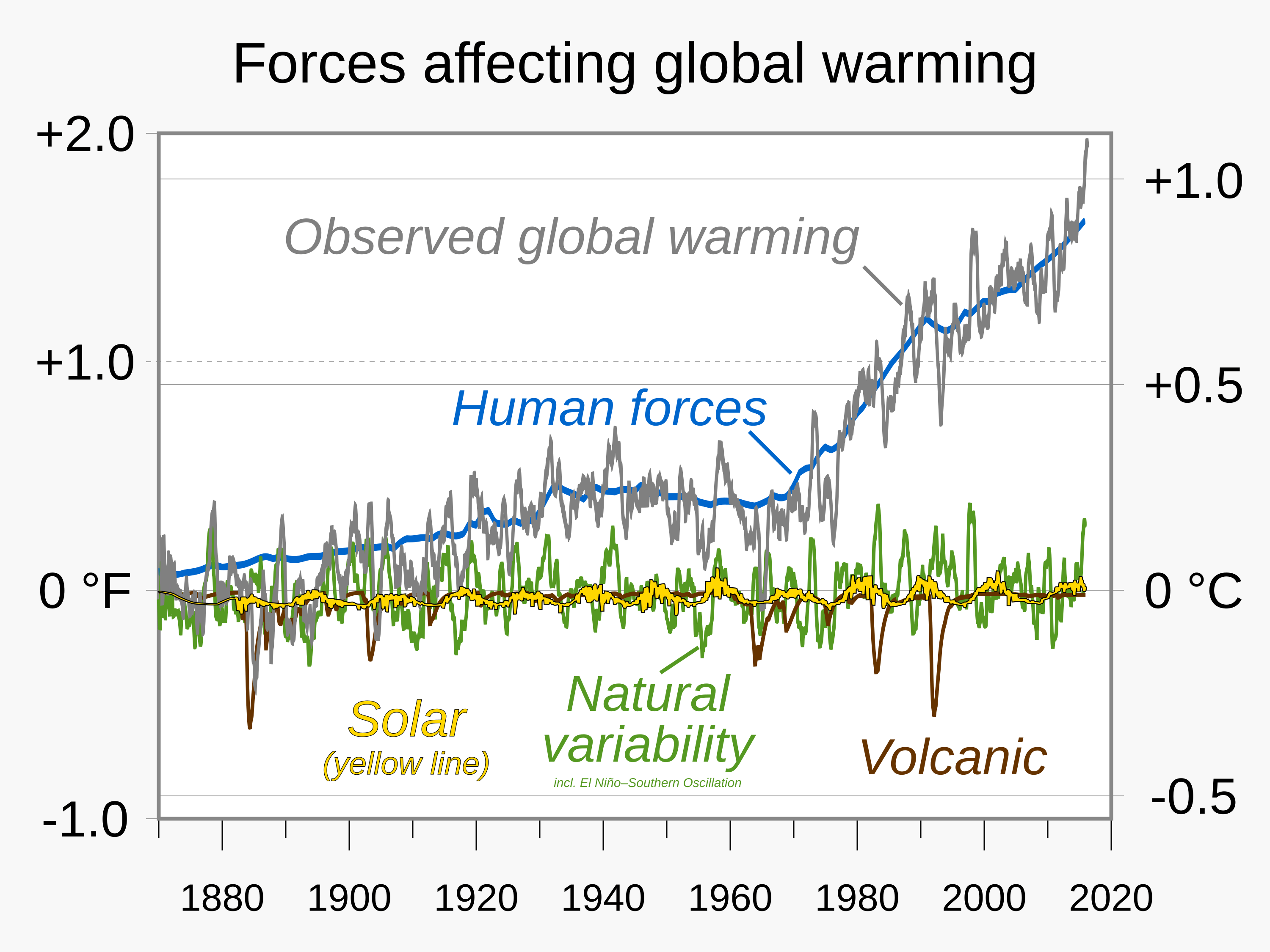 Graph showing global warming attribution - based on NCA4 (2017) Fig 3.3. Modeled forcing responses of forces affecting global temperature (1870 - ~2017). Uploader took separate charts, changed them in Photoshop to a common vertical (temperature anomaly) scale, and merged them into this composite graphic. Source of charts from which the above composite chart was formed: Climate Science Special Report: Fourth National Climate Assessment, Volume I - Chapter 3: Detection and Attribution of Climate Change. . U.S. Global Change Research Program (USGCRP) (2017). Archived from the original on September 23, 2019. Adapted directly from Fig. 3.3. Archive of the PNG image itself. Fig. 3.3 credits this Atmospheric Chemistry and Physics article which states: "Atmos. Chem. Phys., 13, 3997-4031, 2013, © Author(s) 2013. This work is distributed under the Creative Commons Attribution 3.0 License."